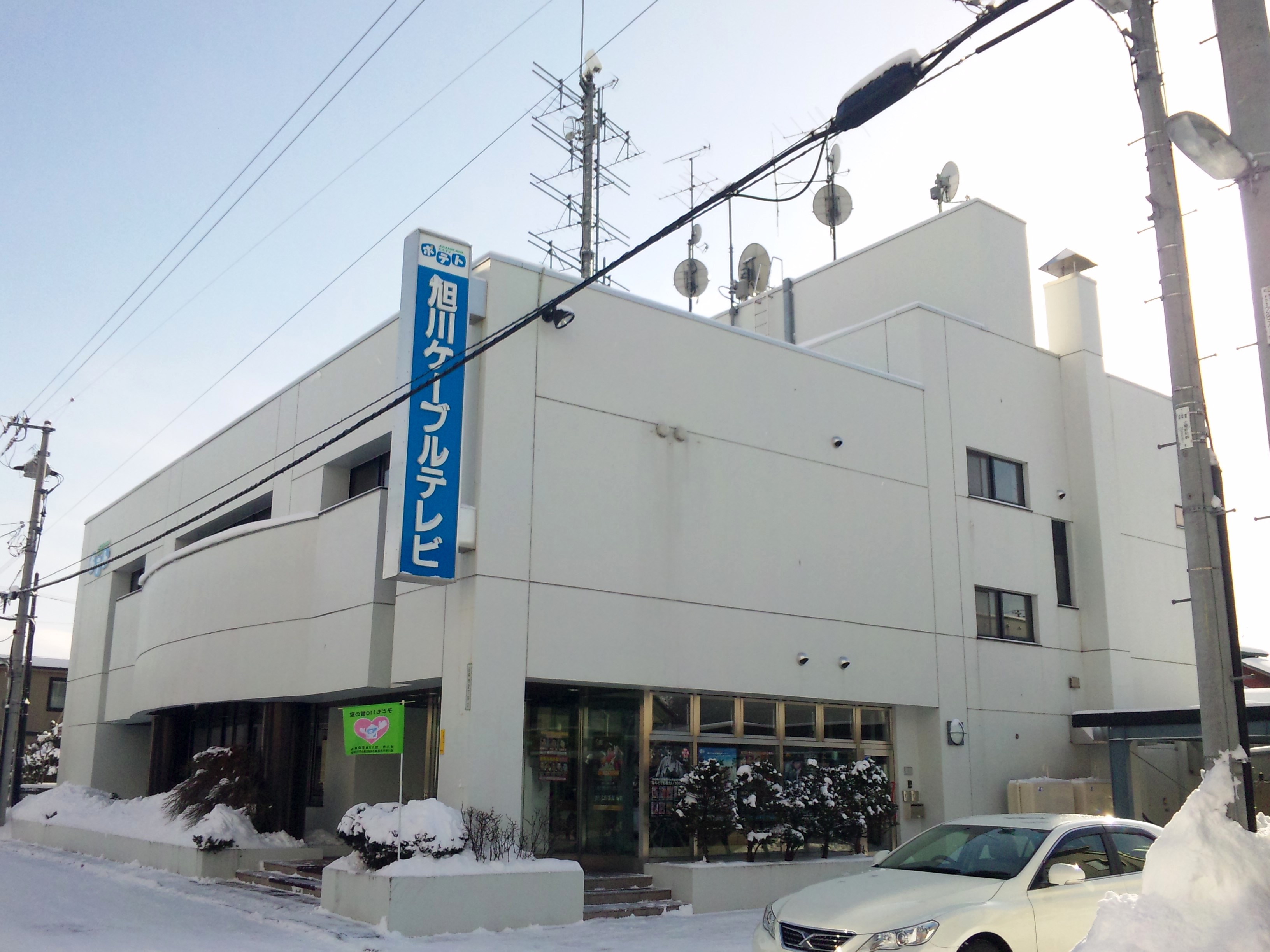 Asahikawa Cable Television Co Ltd., in Hokkaido, Japan